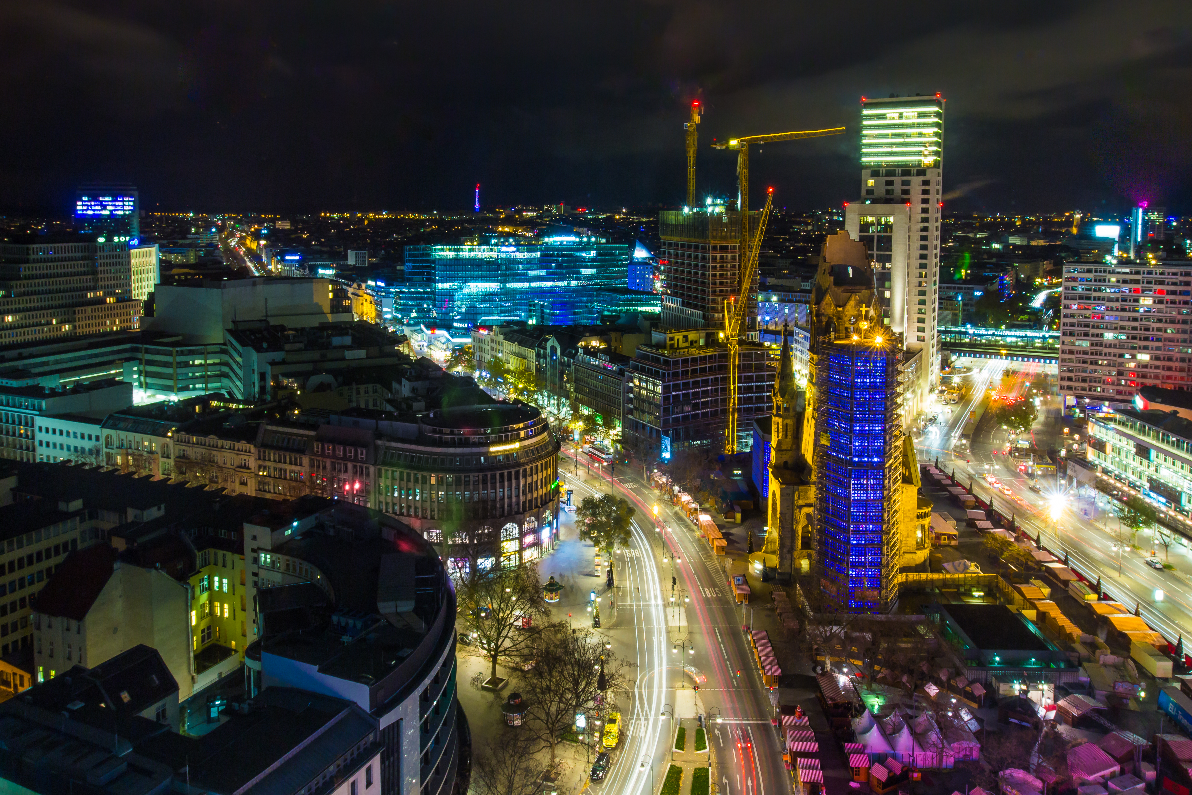 Berlin at night. View in westward direction from Europa-Center. Kurfürstendamm (in the middle) and christmas market at Breitscheidplatz around the Kaiser Wilhelm Memorial Church November 2015. The christmas market is under construction. Opening day was November 23.